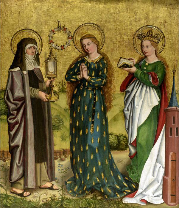 Three Standing Female Saints: Saint Clare, the Virgin Mary and Saint Barbara